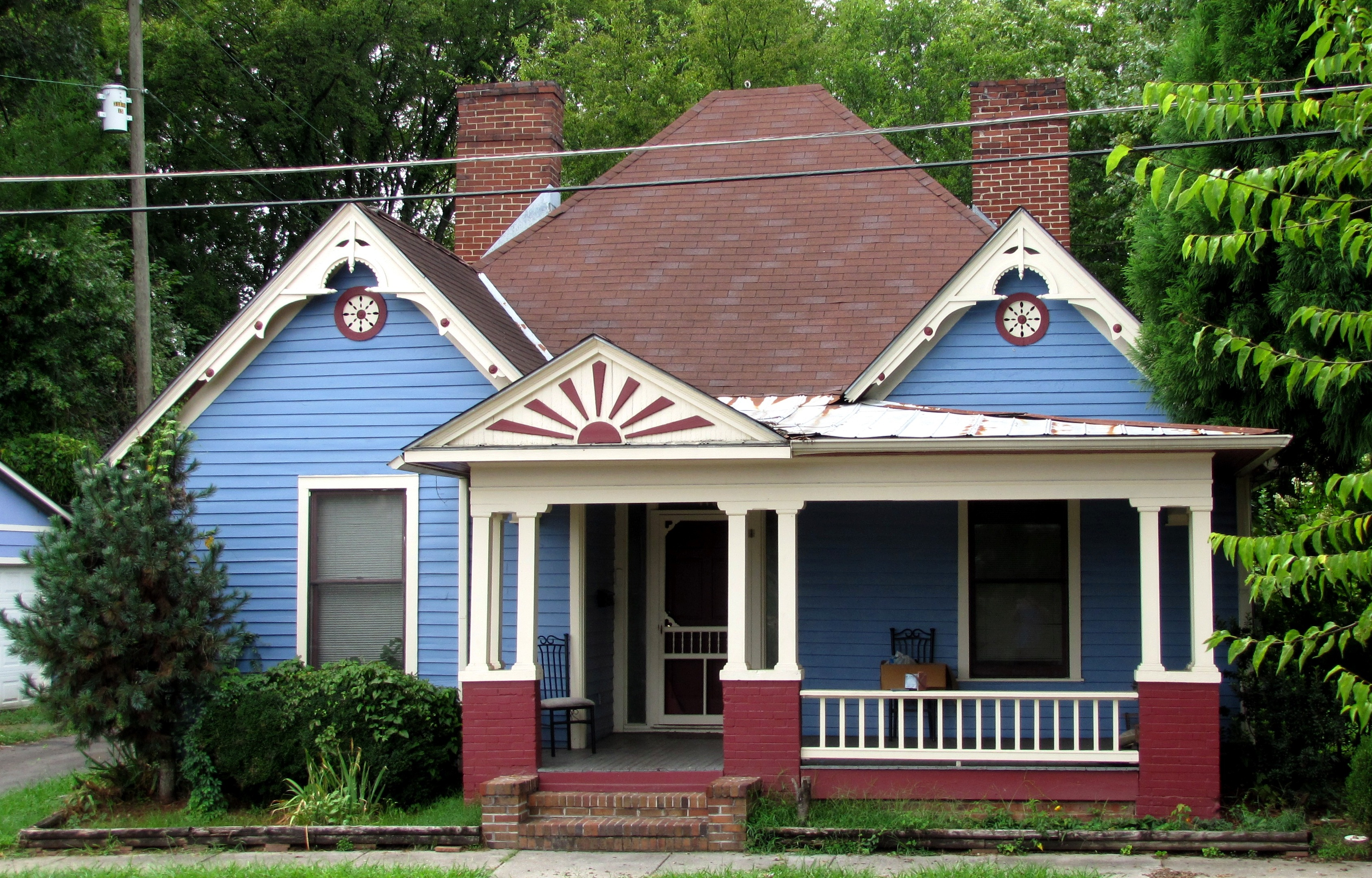 House at 415 Clark Street in the Mechanicsville neighborhood of Knoxville, Tennessee, USA. Built in 1910, this house is now a contributing property within the NRHP-listed Mechanicsville Historic District.